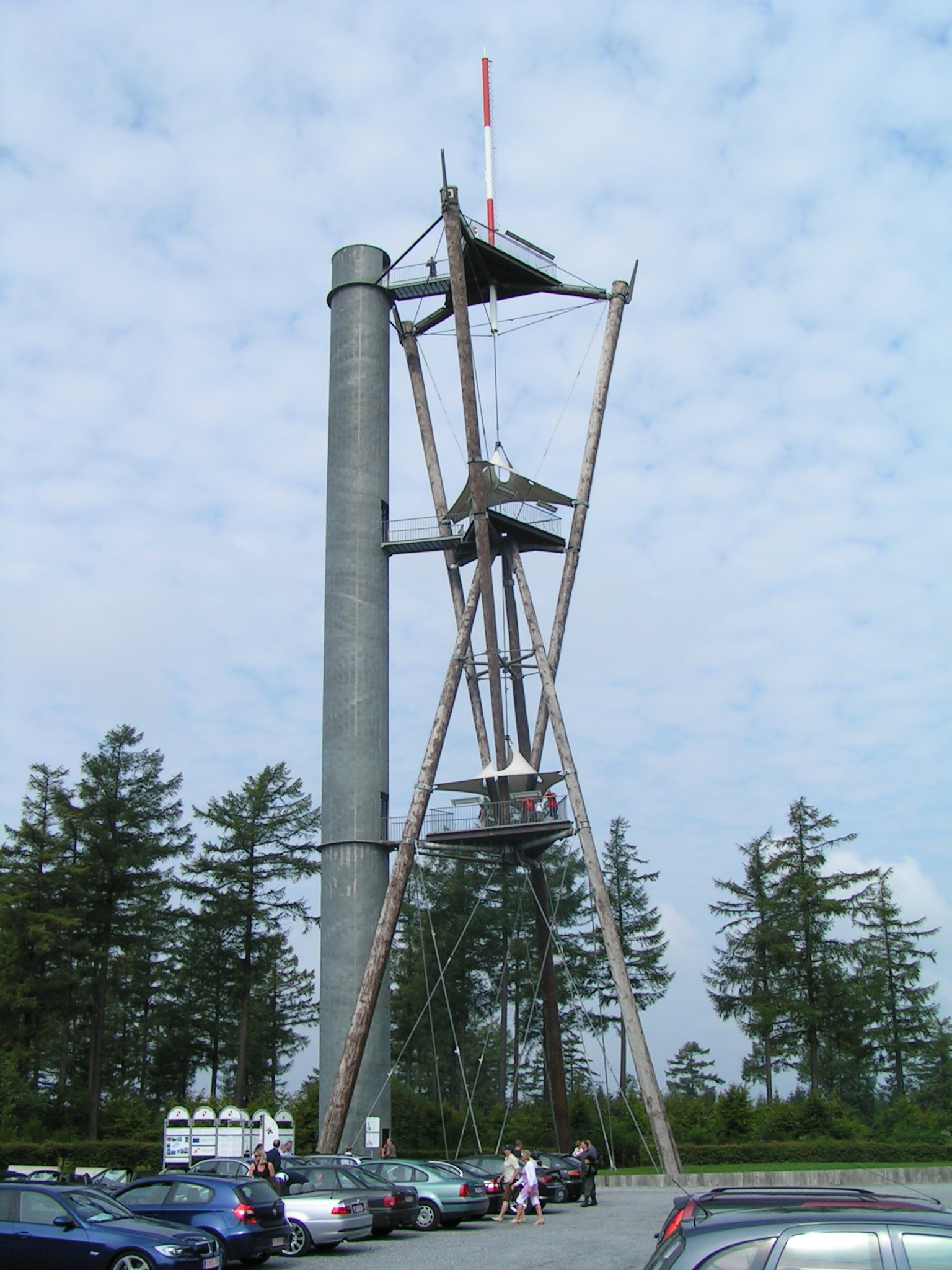 Tour du Millénaire (Millenium Tower), Gedinne, Beligium